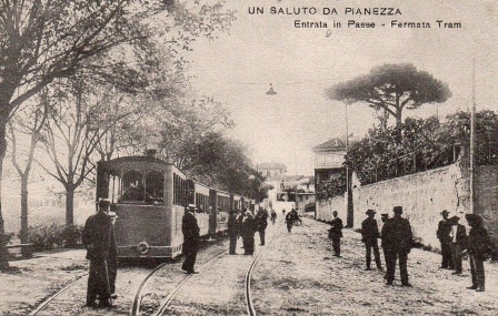 Pianezza, tramway stop